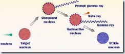 il processo di attivazione neutronica